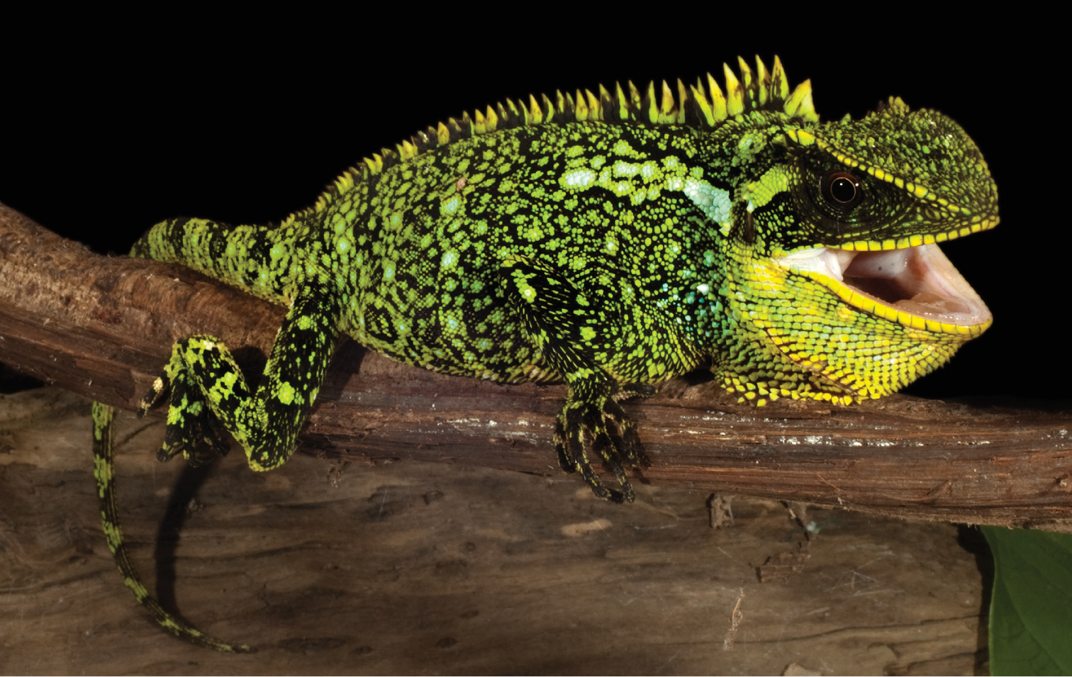 Paratype (QCAZ 6671, adult female, SVL = 132 mm) of Enyalioides altotambo. Esmeraldas, Ecuador.